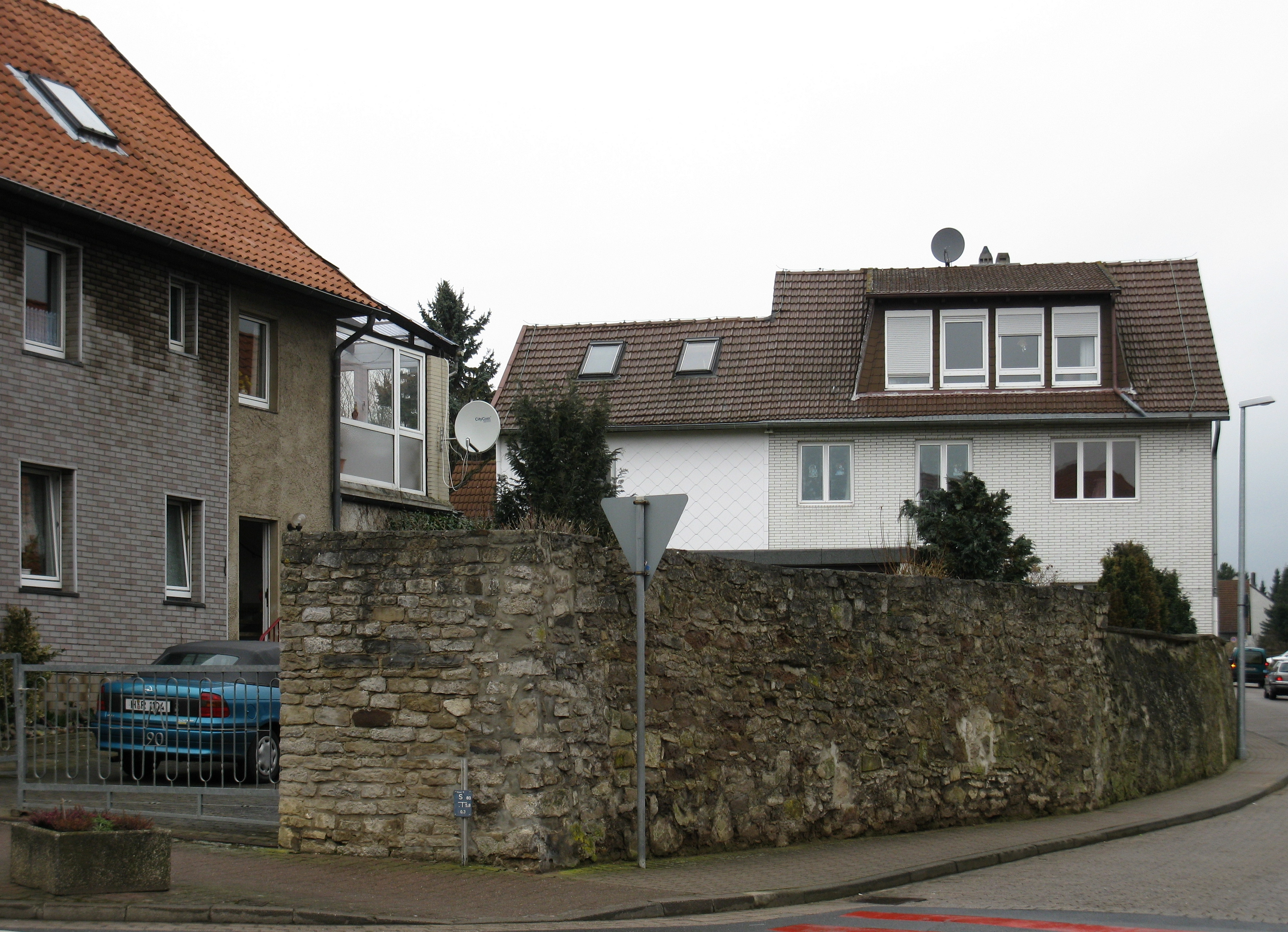 Medieval city wall, Eldagsen Germany